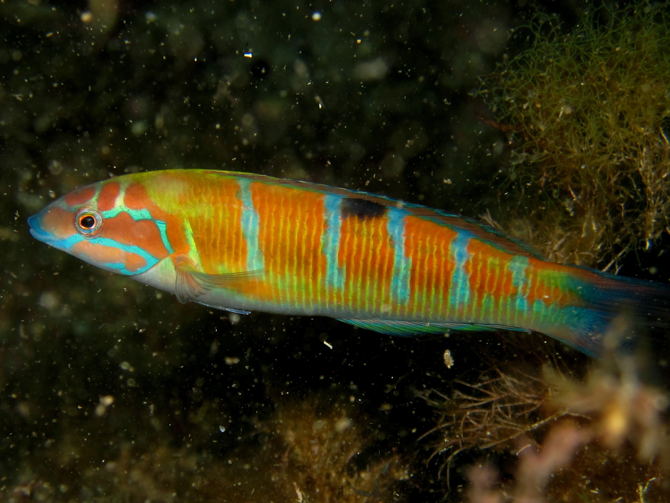 Thalassoma pavo female in the Mediterranean (Costa brava).